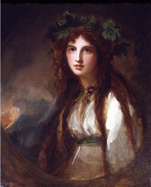 Historical Portraits Ltd, Private Collection Philip Mould